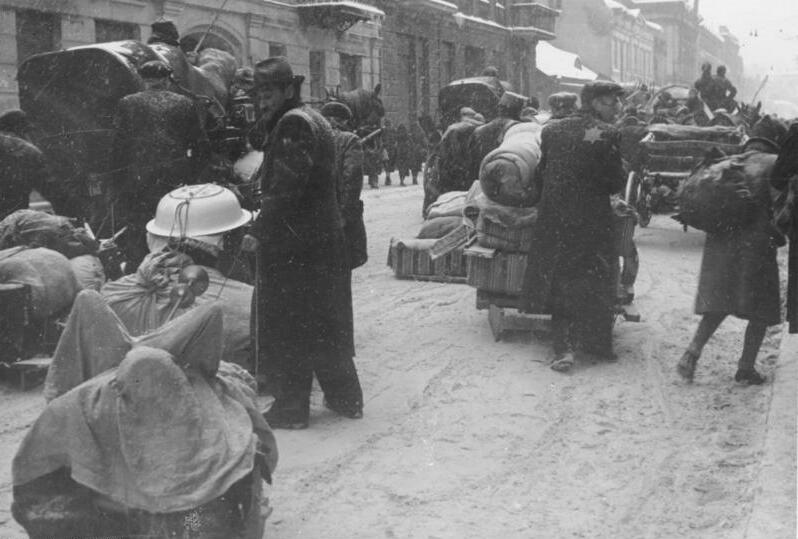 Łódź city, occupied Poland. A group of displaced persons weared with Star of David on theirs clothings during the way to north at Scheunengasse and Nordstraße junction (Zachodnia and Pólnocna streets junction) toward Litzmannstadt Ghetto.